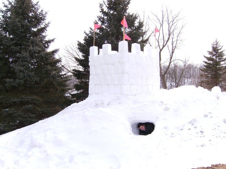 2 Story Snow Fort made by Dustin Dodge in Ellsworth, WI